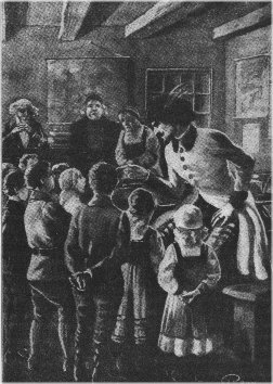 Ilustration by G. Roux to Jules Verne story